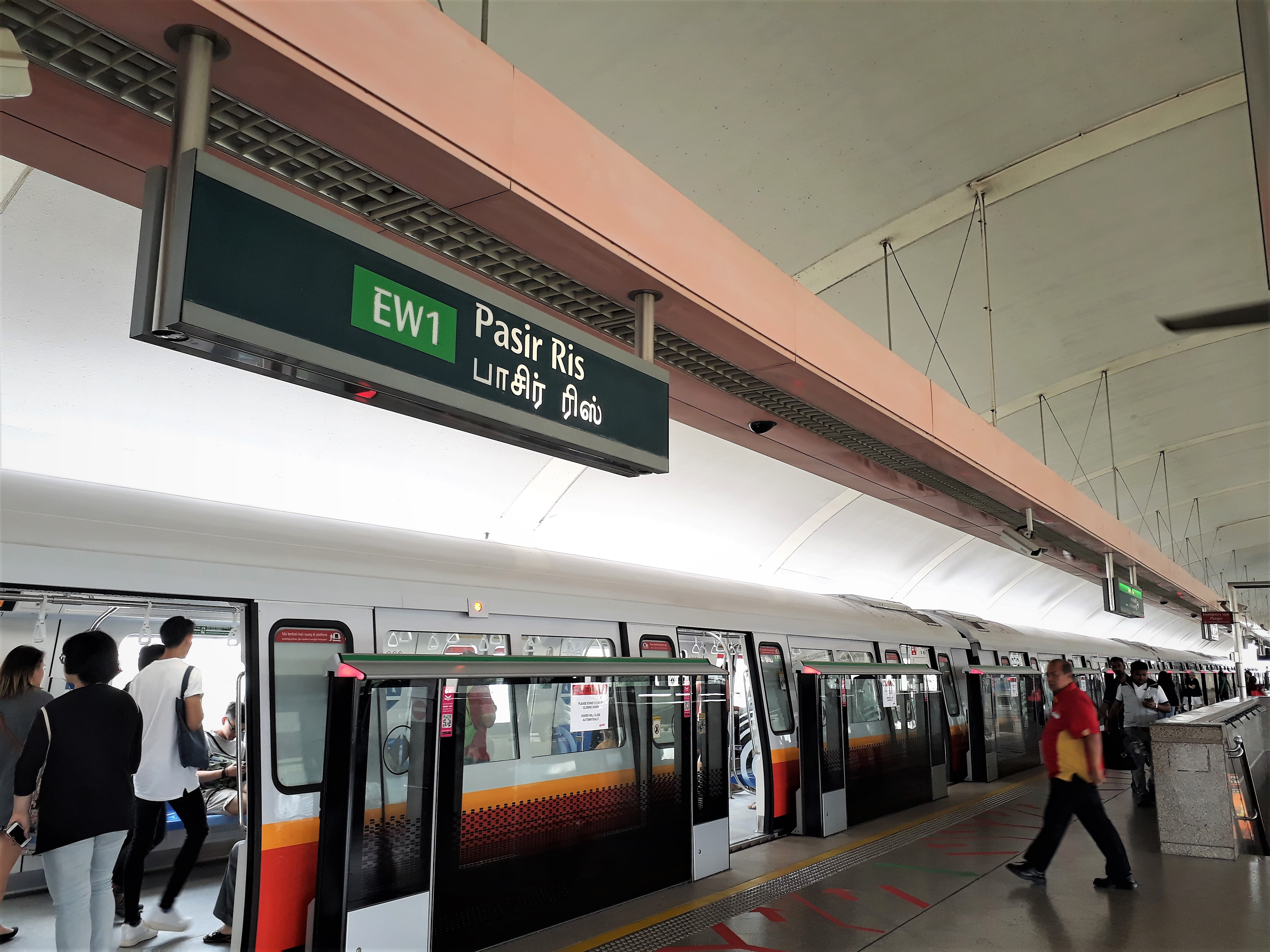 A C151b train at Pasir Ris